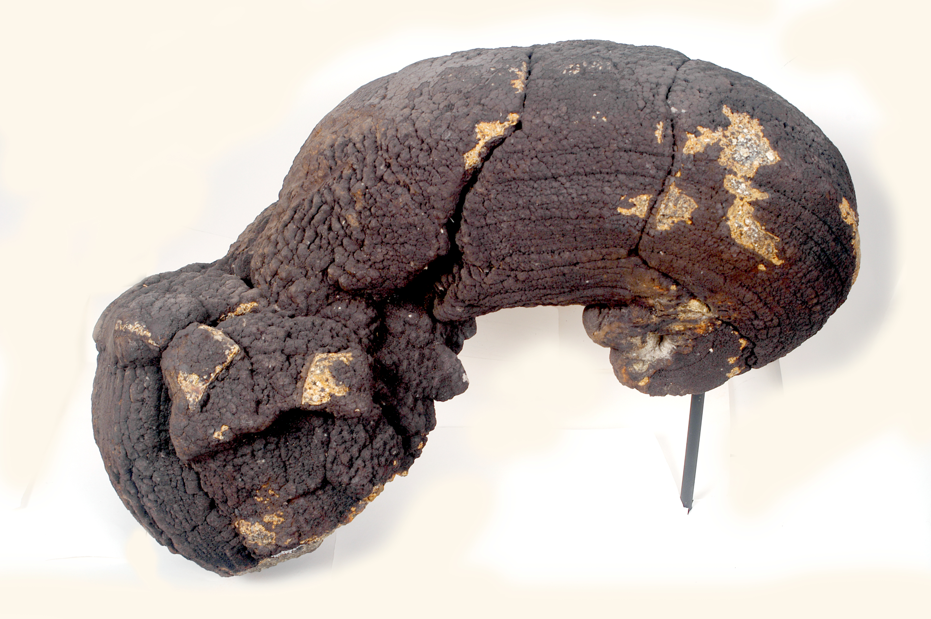 Basalt pillow lava from Juan de Fuca Ridge on the floor of the Pacific Ocean.